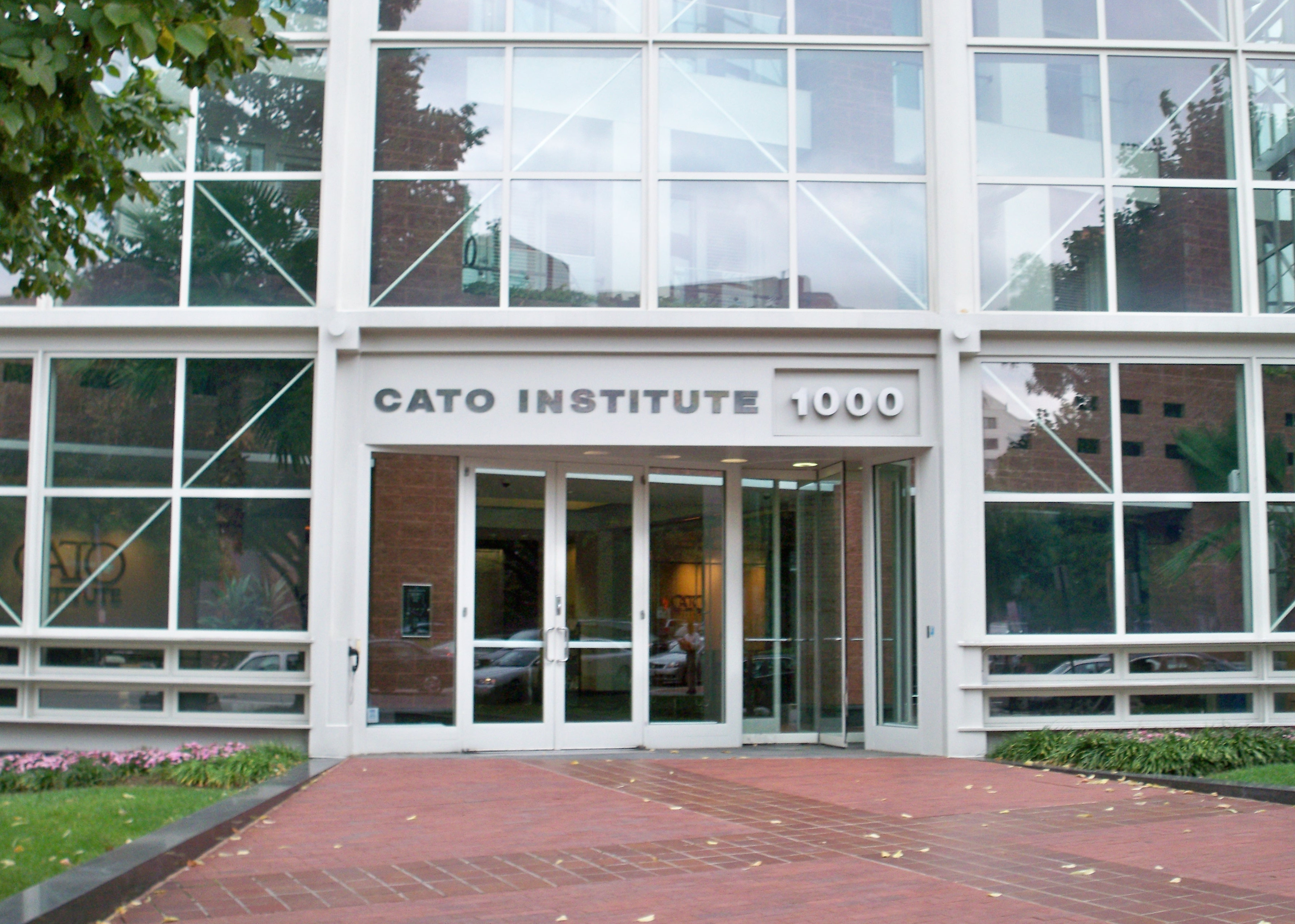 Entrance to the Cato Institute in Washington, DC.